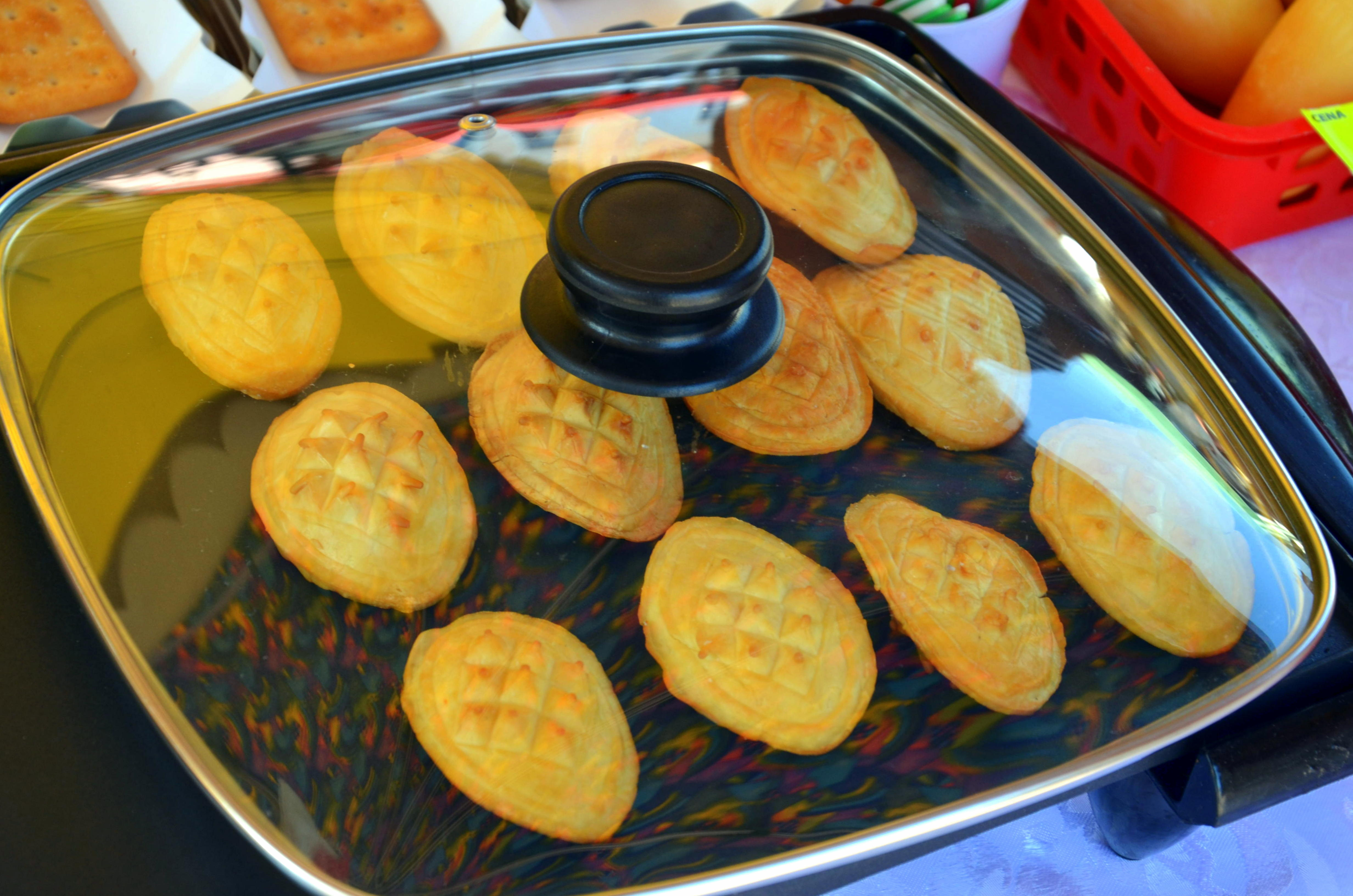 serki